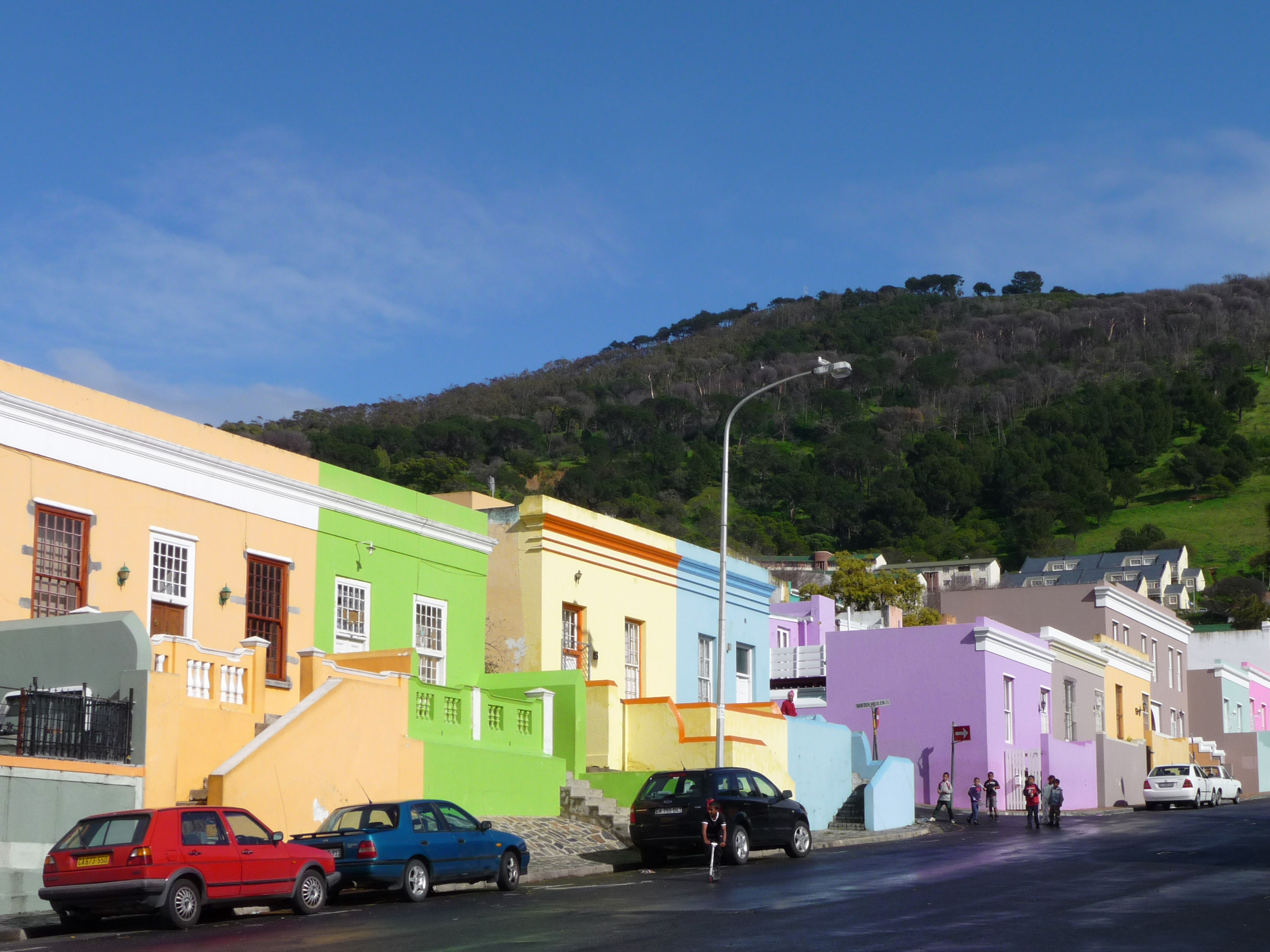 The famous colorful houses of the historical quarter Bo Kaap in Cape Town, South Africa.